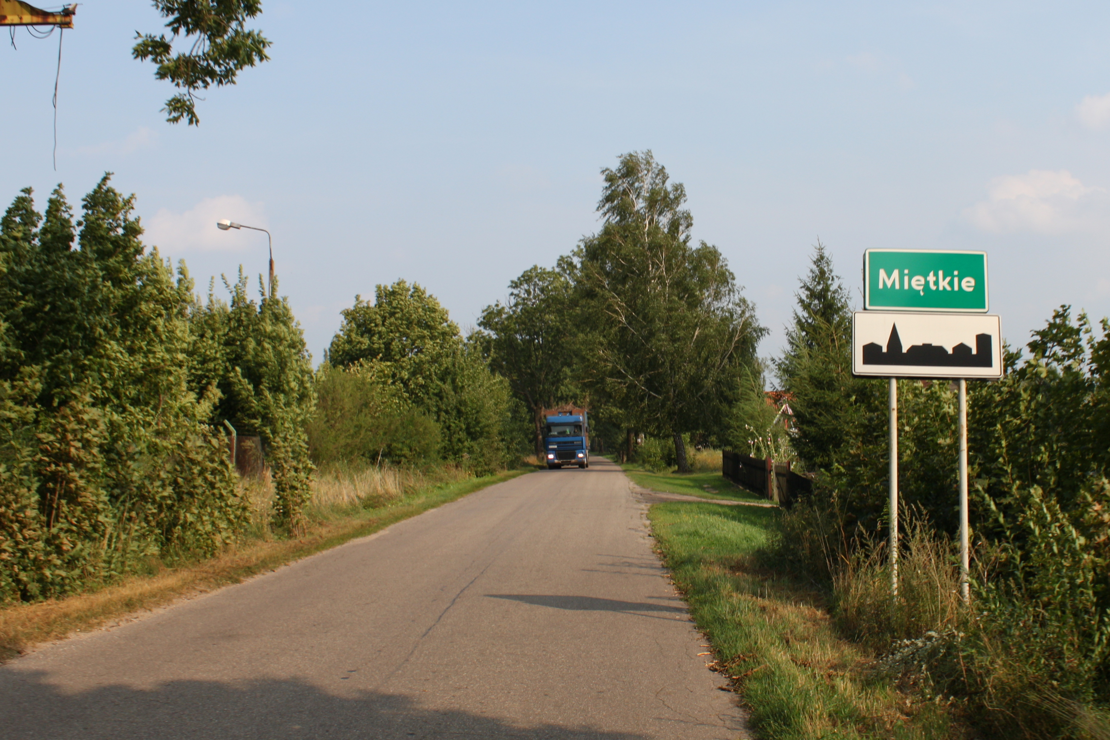 Road in Miętkie.